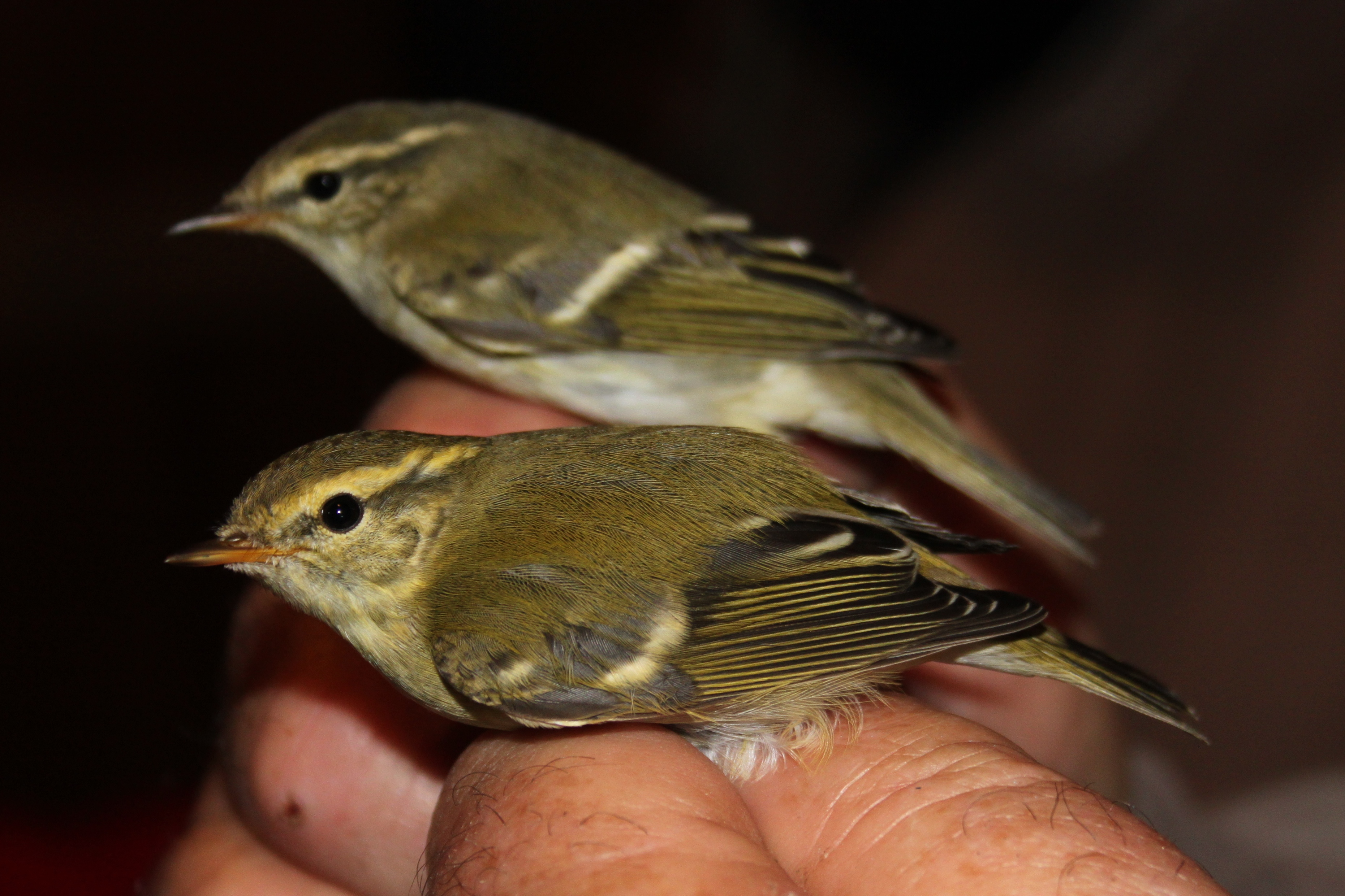 Two Yellow-browed Warblers, ringet at Cervenohorske sedlo, Czech Republic, on 6th October 2013